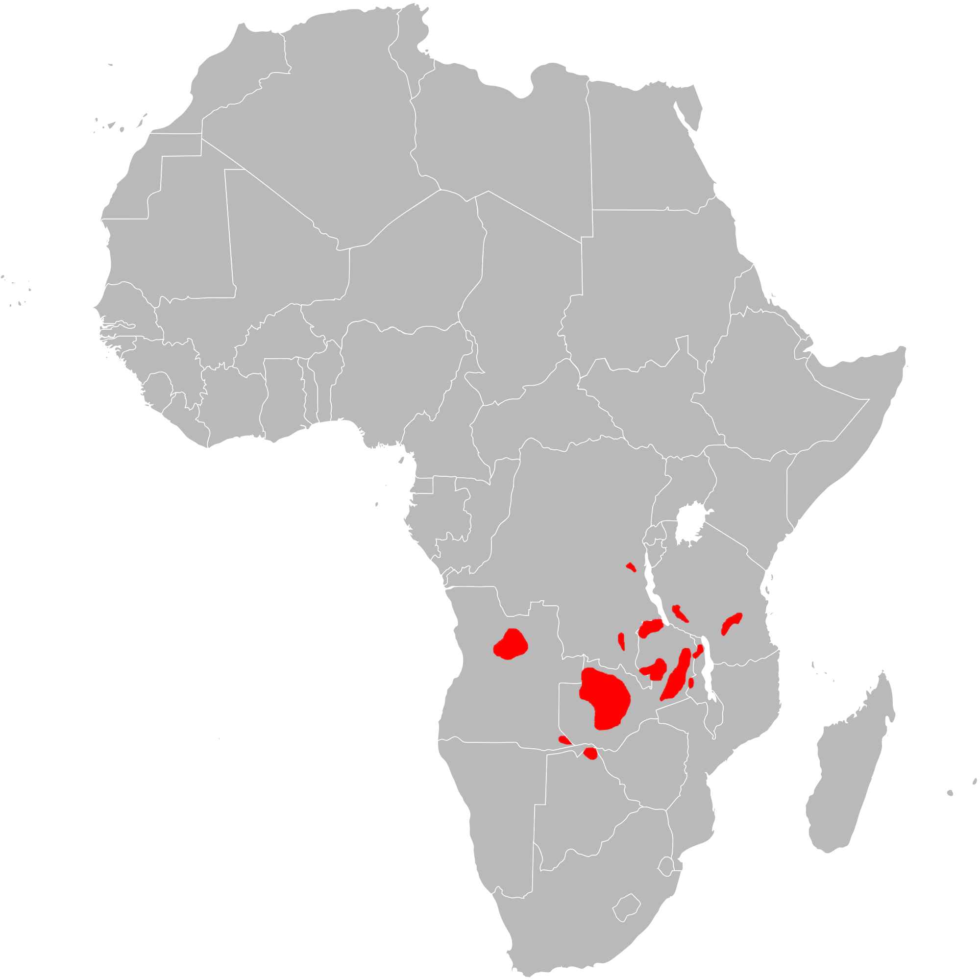 Range map of Puku.